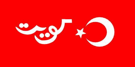 License: GFDL. Permission: 1 Flag of Kuwait, 1899-1909